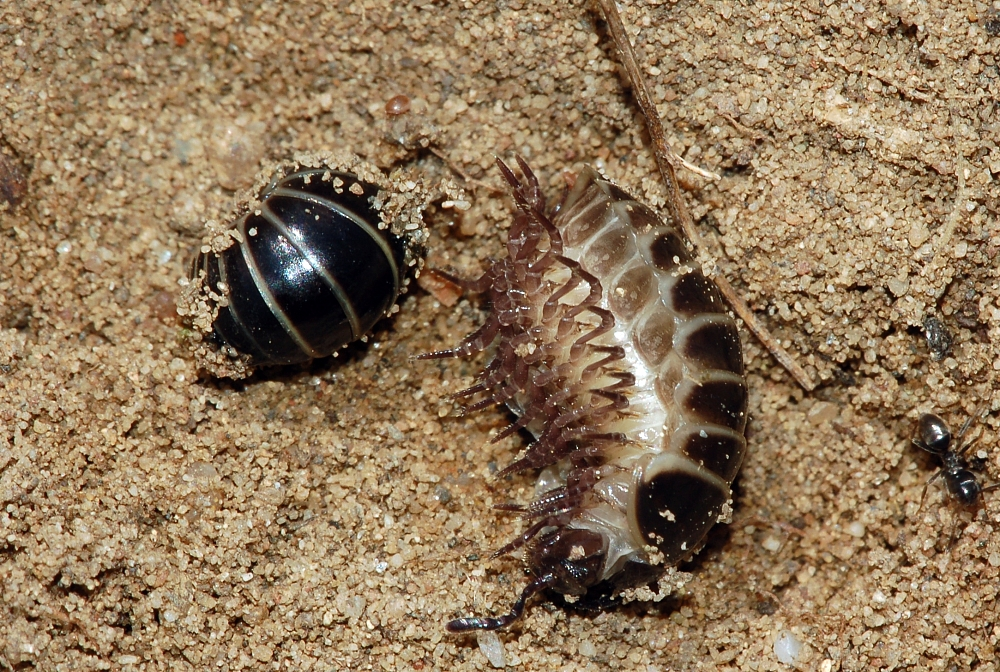 cf. Glomeris marginata, Darmstadt, Germany